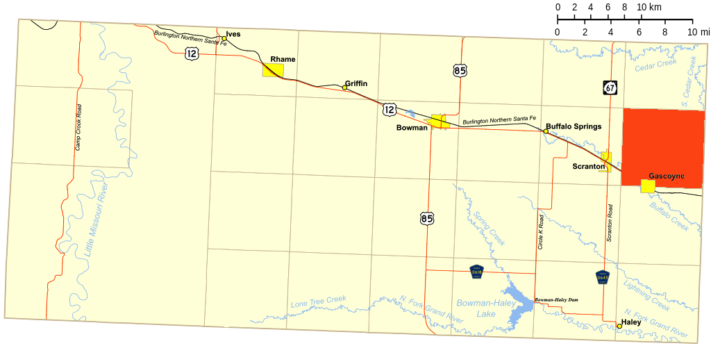 Map of Bowman County, North Dakota with Fischbein Township highlighted